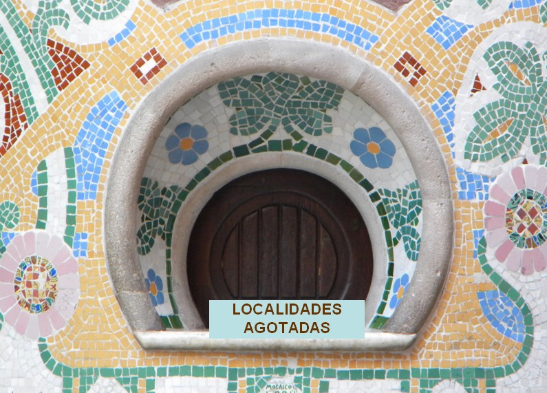 All tickets sold out.